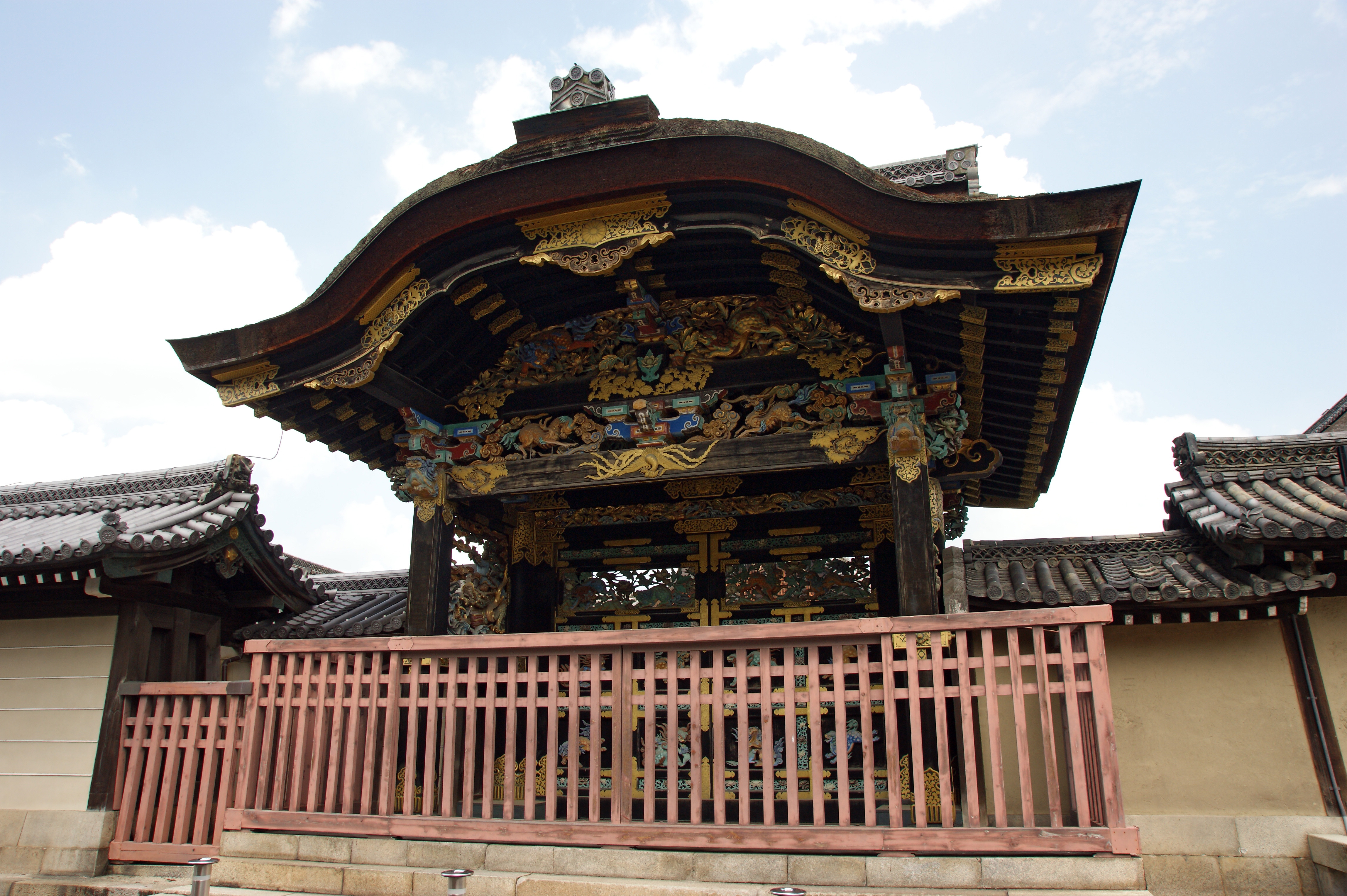 Nishi Hongwanji, Kyoto, Kyoto Prefecture, Japan